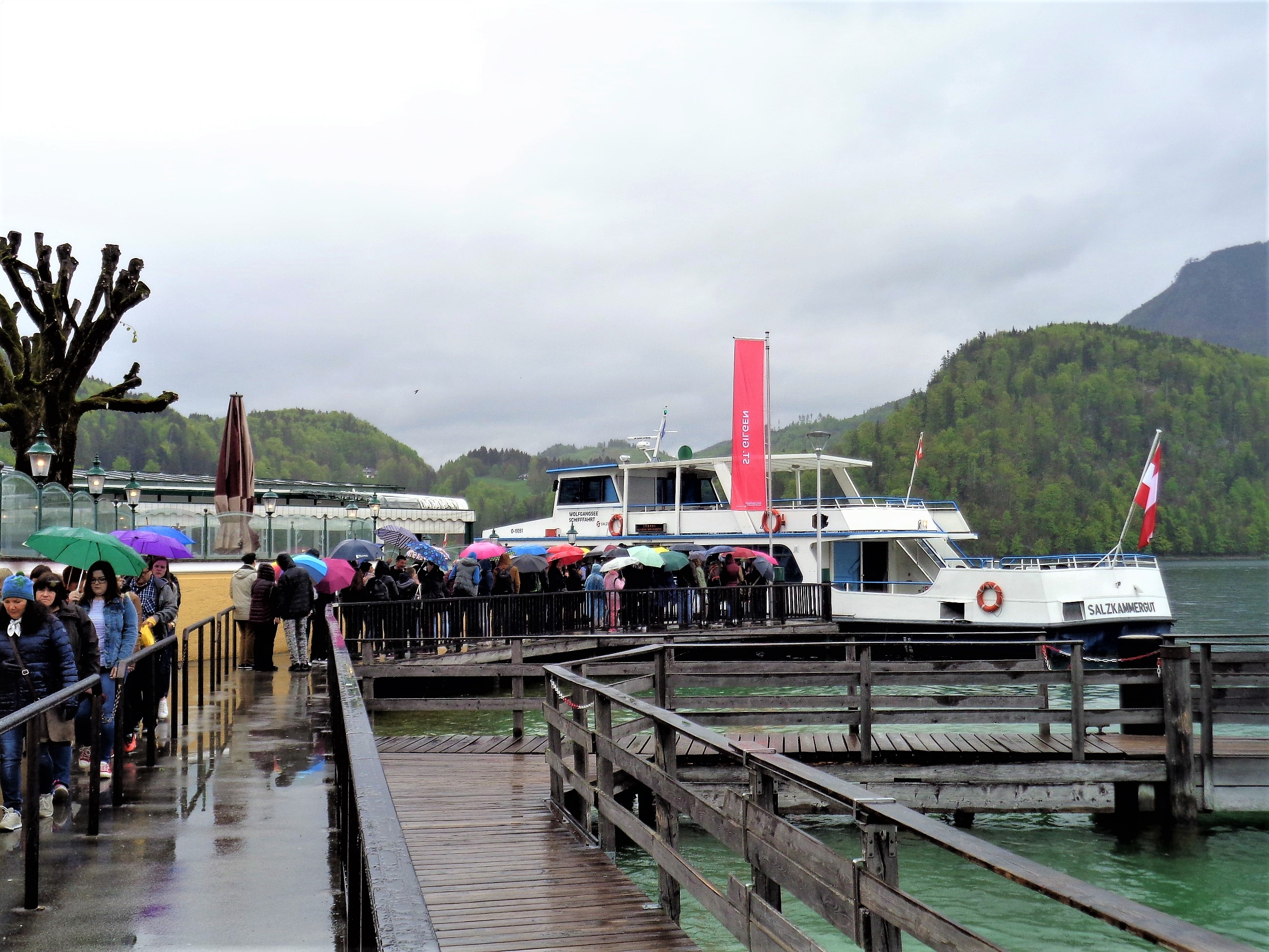 Sankt Gilgen, village in State of Salzburg, Austria - harbour